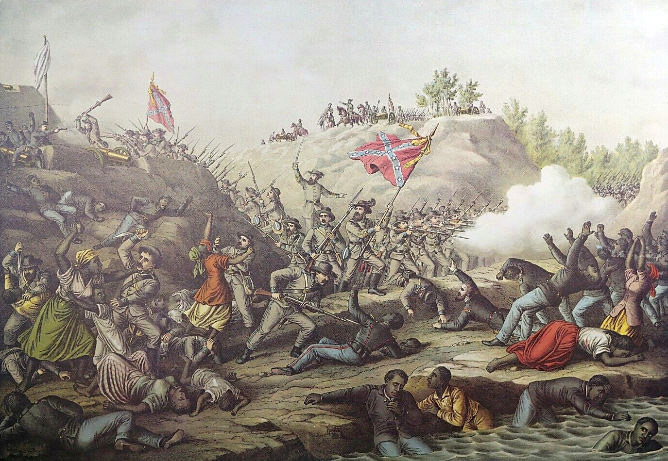 Fort Pillow Massacre, Kurz and Allison, Chicago, 1885